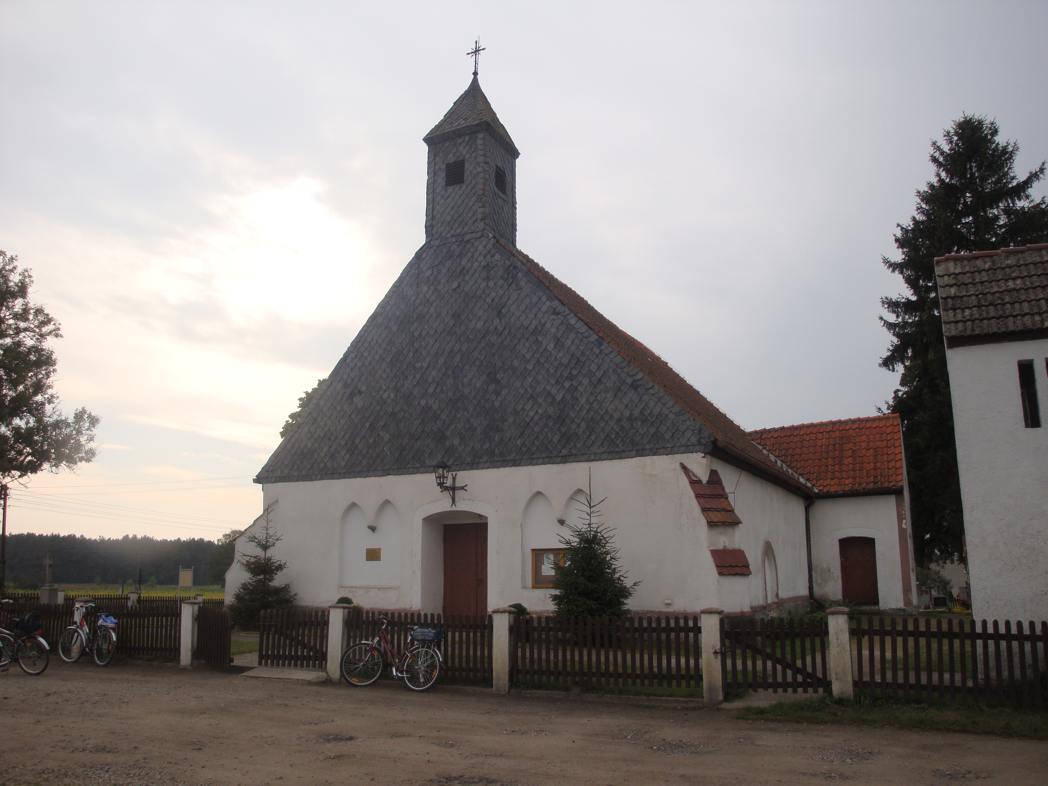 Wielki Wełcz - village near Grudziądz, Poland. Church of St. John the Baptist. Built in 13th century